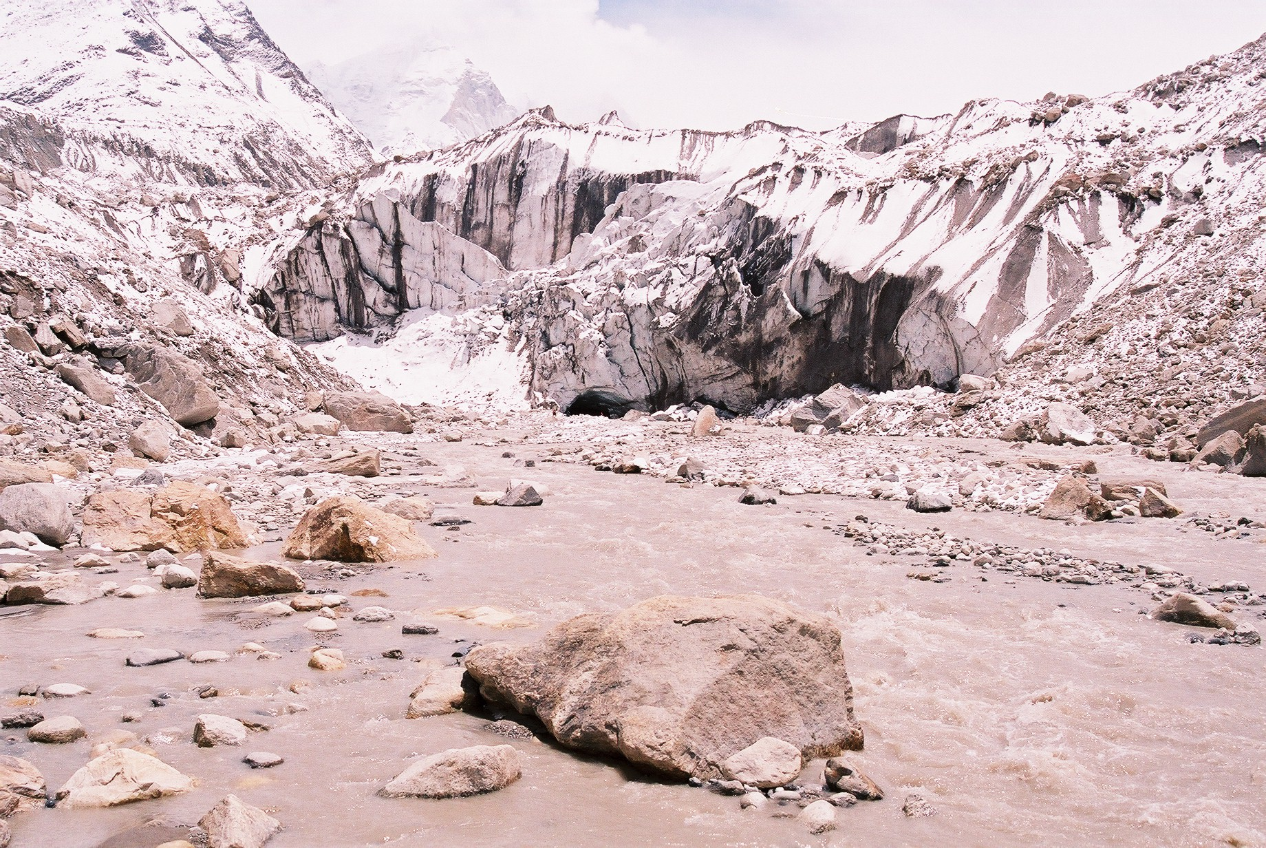 Gaumukh, the source of river Bhagirathi(a major tributary of Ganga) in Uttarakhand, India Taken by Anshul Sawant at noon on May 28, 2007 It should be in article titled Gaumukh